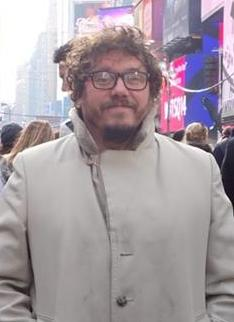 Bobby Bare Jr in New York City